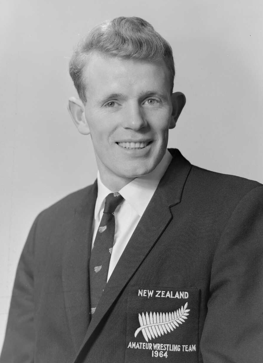 Mr A G Greig, New Zealand representative, amateur wrestling team, Japan Olympics 1964